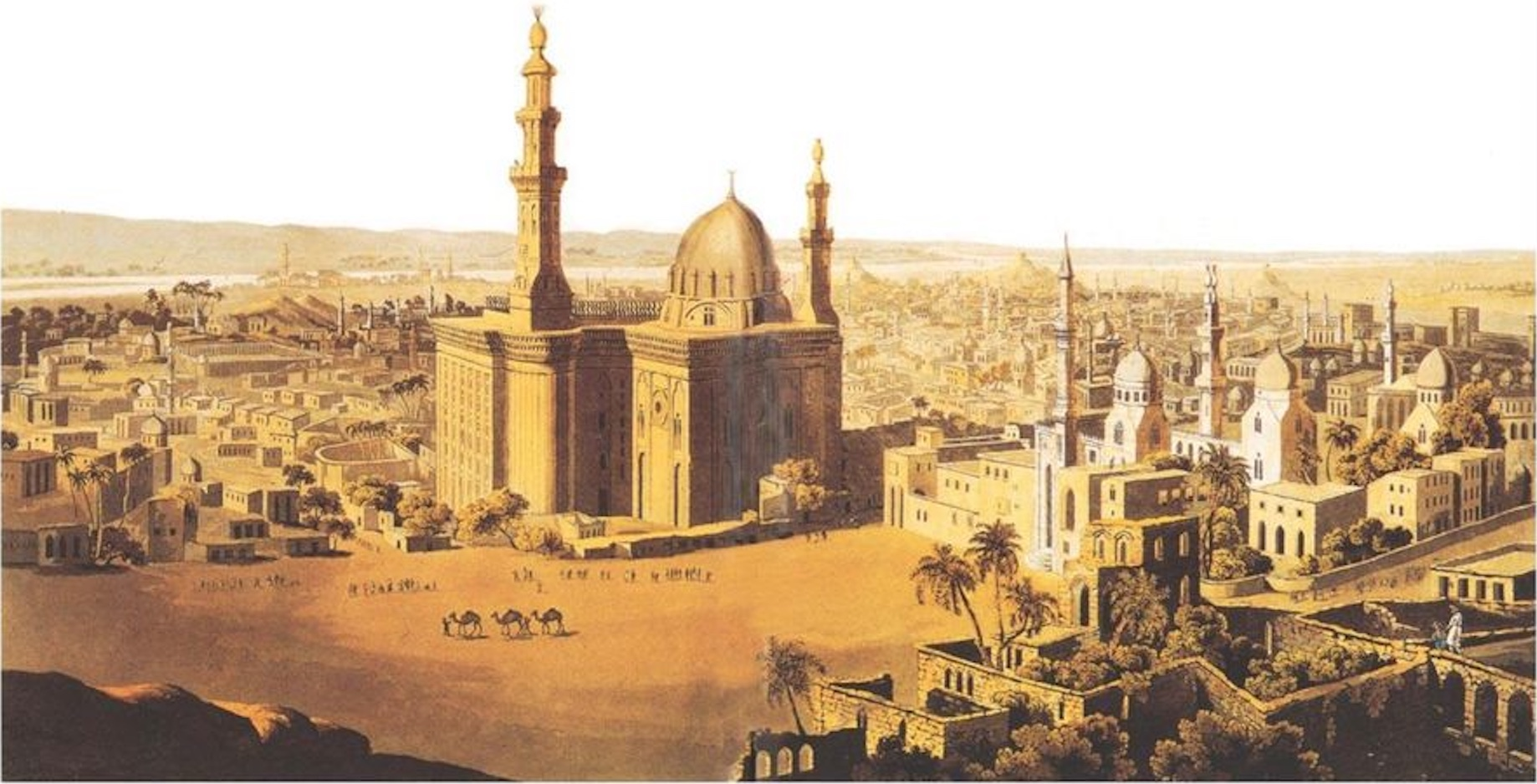 View of Greater Cairo, painted by Henry Salt, engraved by Daniel Havell, published as the Act directs, by William Miller. Albermarle Street, 1st May 1809. Bibliothèque nationale, Paris. — Image extracted/scanned from the Taiwanese edition of The Search for Ancient Egypt (pp. 66–67) by Jean Vercoutter, “Abrams Discoveries” and ‘New Horizons’ series, Abrams Books and Thames & Hudson, 1992.